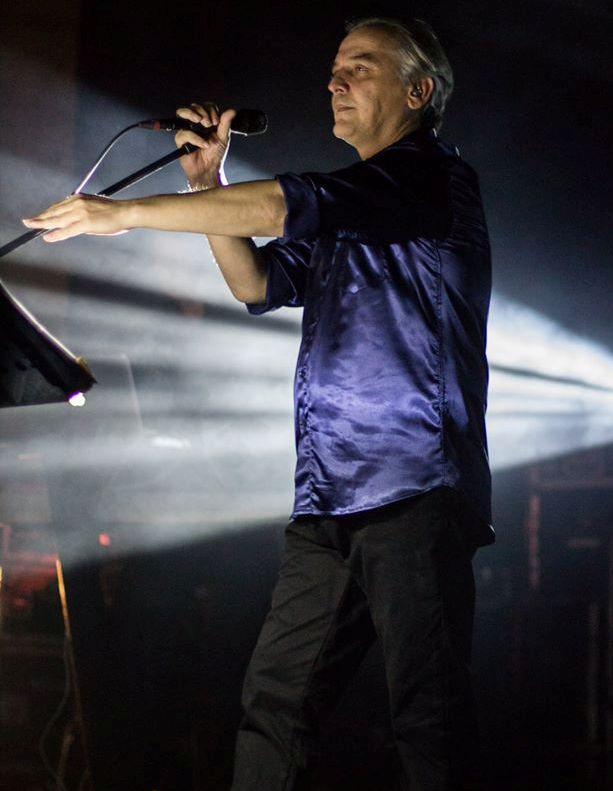 German singer Peter Heppner with Band during the "Confessions & Doubts Tour 2018" at Alte Spinnerei Glauchau, Germany.